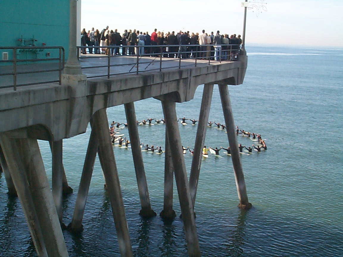 A surfer memorial service being held at the Huntington Beach Pier, Orange County, California, USA